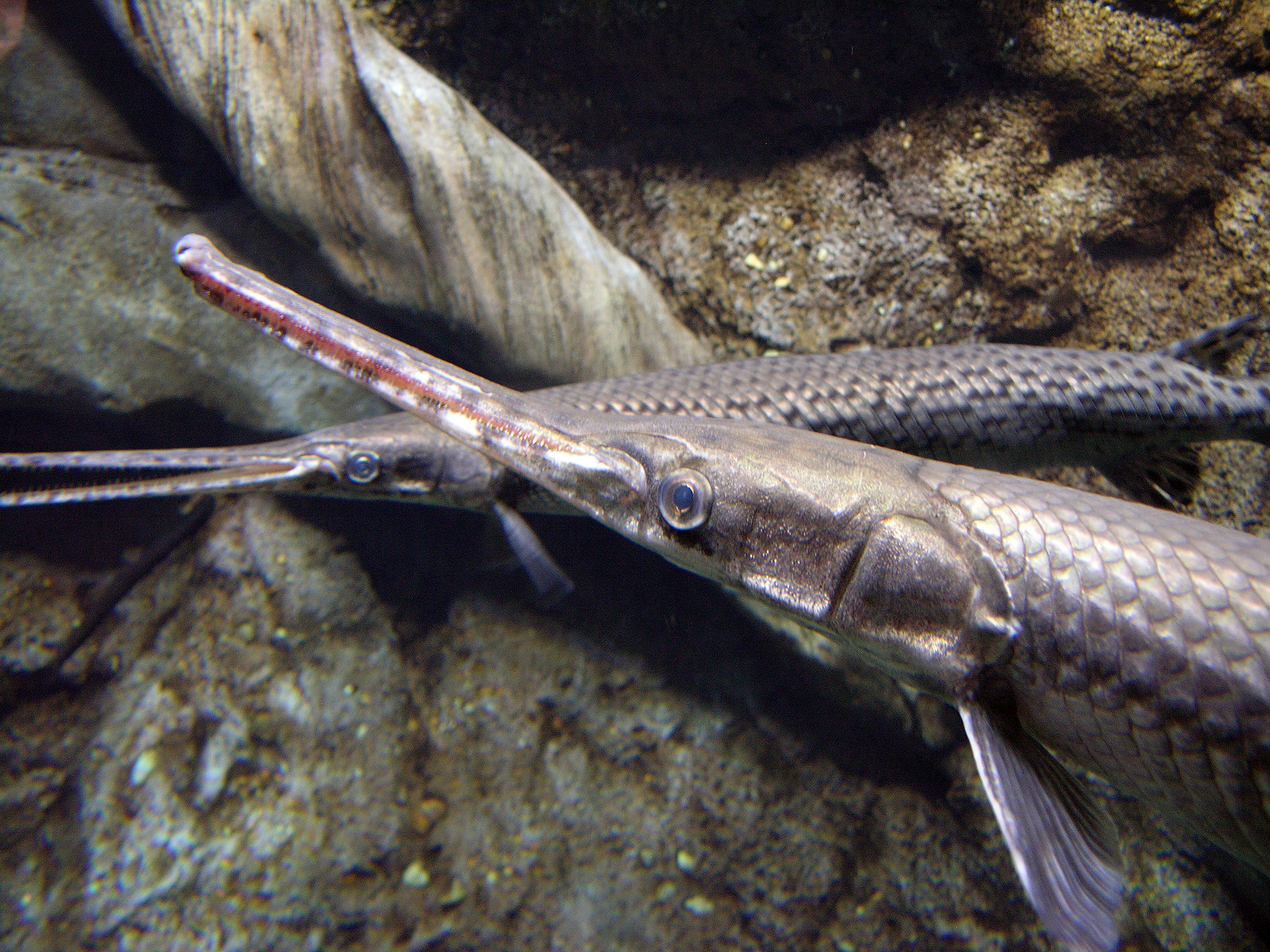 Longnose Gar at the Georgia Aquarium, Atlanta